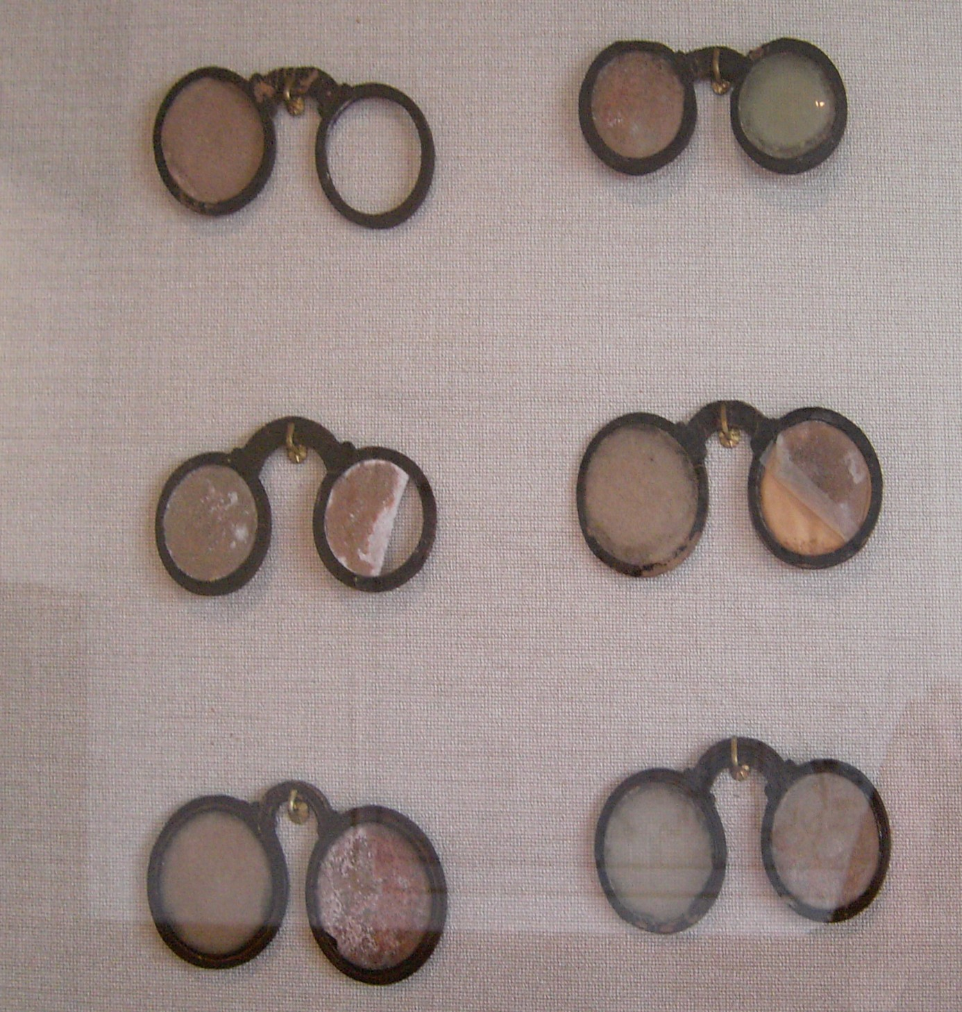 Wartburg, 16th century glasses.